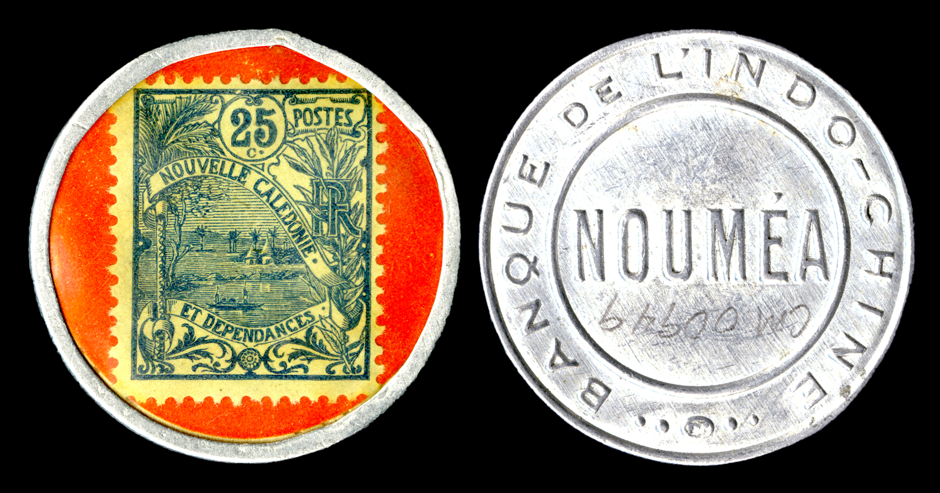 NC-28-New Caledonia-25 Centimes (1922)